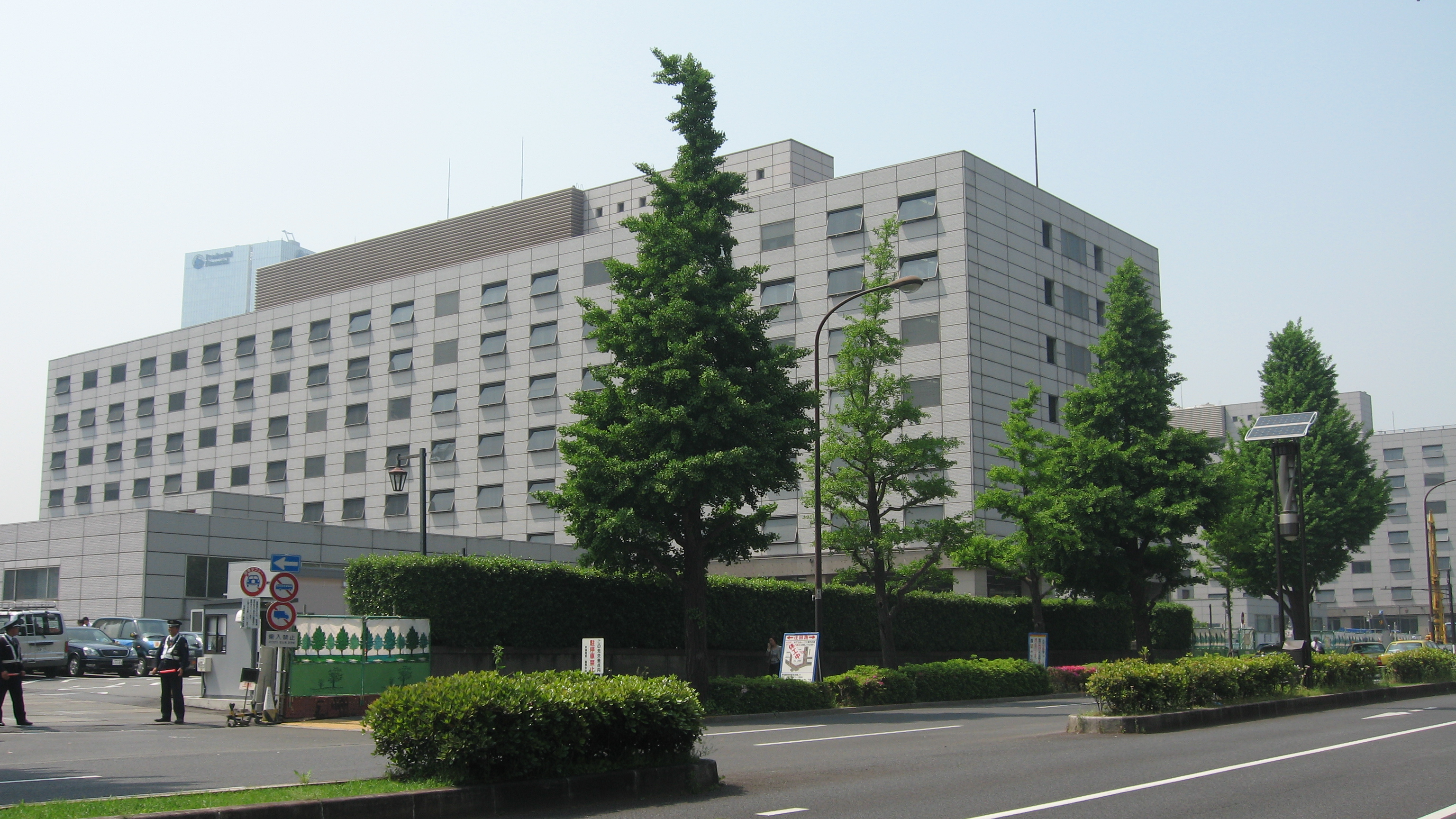 The First Members' Office Building of the House of Representatives. 2-2-1 Nagatachô, Chiyoda, Tokyo.